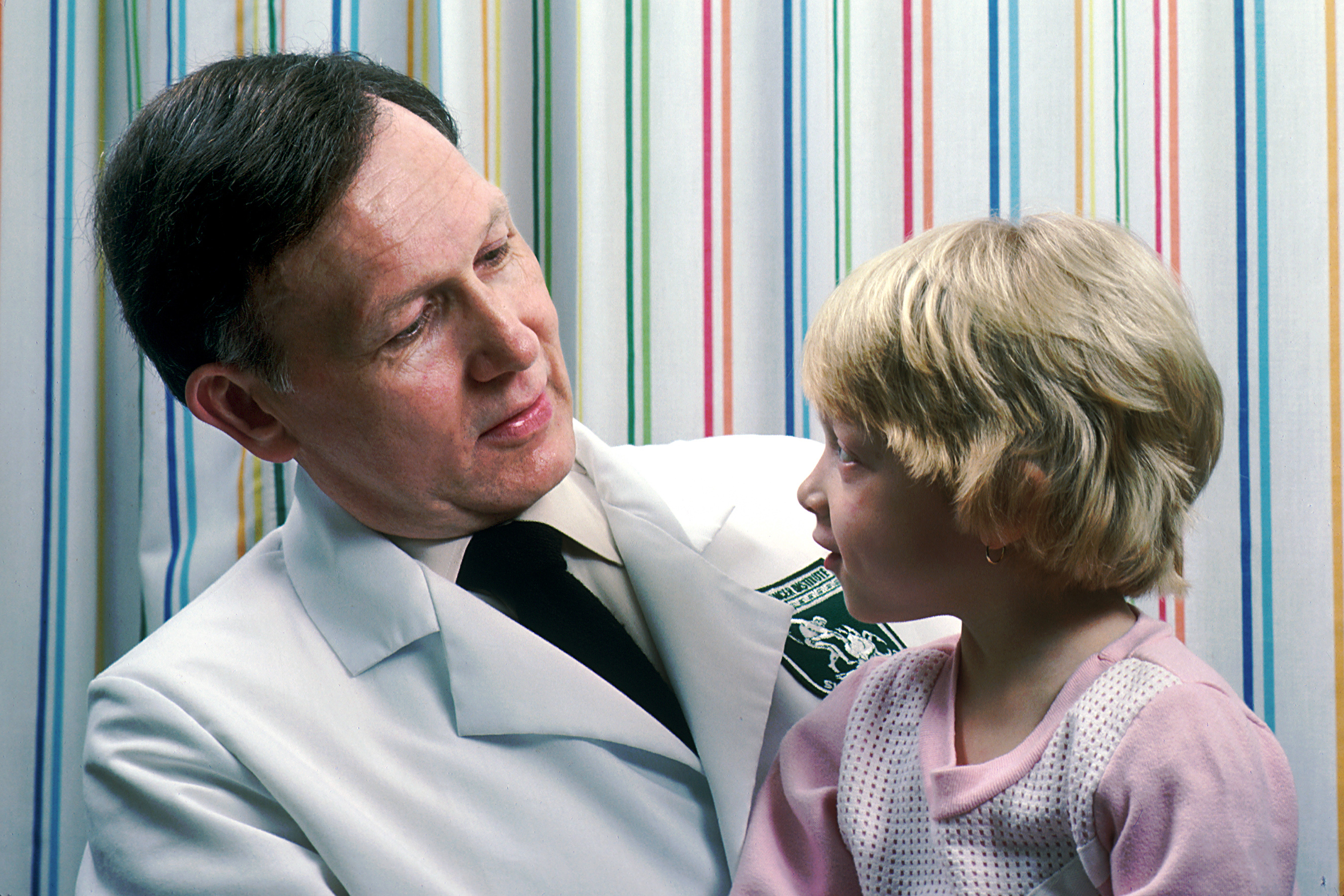 Title Young Girl Sits on Doctor's Lap Description A young Caucasian girl, possibly a leukemia patient, is sitting on the Caucasian doctor's lap. The girl is blonde, around 4 or 5 years old and conversing with the doctor. Topics/Categories People -- Adult People -- Child People -- Health Professional and Patient Type Color, Photo Source National Cancer Institute